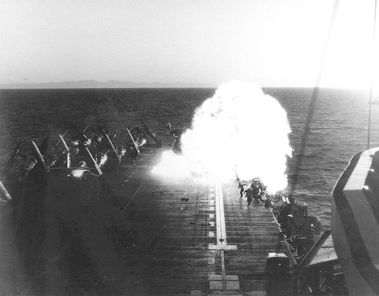 Explosion on the flight deck aboard U.S. Navy aircraft carrier USS Essex (CV-9) near the starboard bow, after a McDonnell F2H-2 Banshee (BuNo 124968) of Fighter Squadron VF-172 "Night Owls" crashed into parked aircraft in a deck landing accident off Korea on 16 September 1951. The accident resulted in the loss of seven lives and four aircraft: two F2H-2s (BuNo 124966, 124968) and two Grumman F9F-2 Panthers (Bureau No 125128, 125131) of VF-51 "Screaming Eagles". The F2H was piloted by LtJG Keller. The Essex, with assigned Carrier Air Group 5 (CVG-5), was deployed to Korea from 26 June 1951 to 25 March 1952.